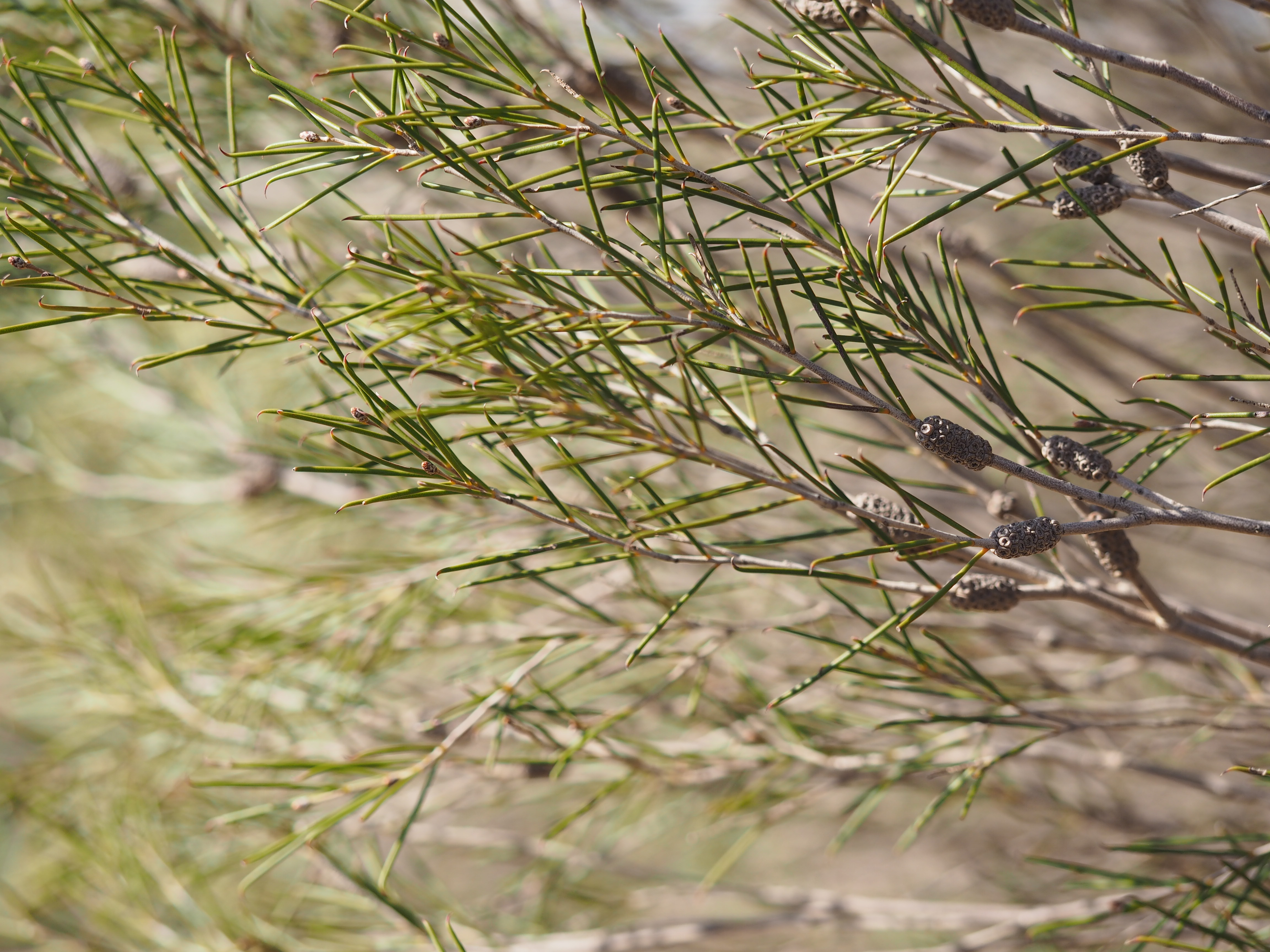 Melaleuca atroviridis at the type location near Goomalling